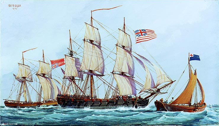 The ship Columbus of the Continental Navy. Public domain photo image from the USA Dept of the Navy, Naval Historical Center, Photo #: NH 85210-KN (color). The Naval Historical Center describes as: “Painting in oils by W. Nowland Van Powell, depicting Columbus, under the command of Captain Abraham Whipple, bringing in the British brig Lord Lifford, while operating off the New England coast in 1776." ColWilliam (talk) 22:24, 10 April 2010 (UTC)